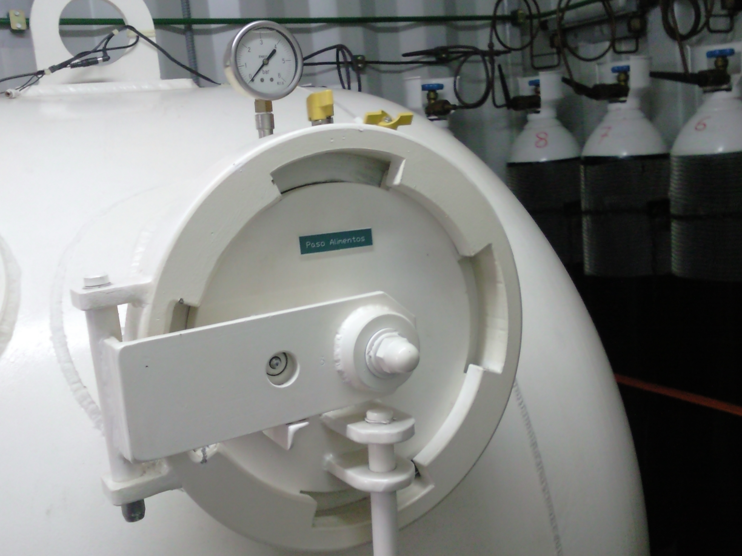 Medical lock on decompression chamber. Used to transfer medical supplies and food into and out of the chamber while it is under pressure. The small volume allows quick and economical transfer of small items, as the gas lost has relatively small volume compared to the entry lock, which is big enough to transfer people. The door is locked by a 45 degree rotation. A safety interlock which prevents any rotation of the door while the lock is pressurised can be seen in the disengaged position, showing that it is safe to open the outer door. The gauge also shows that the pressure has been released.